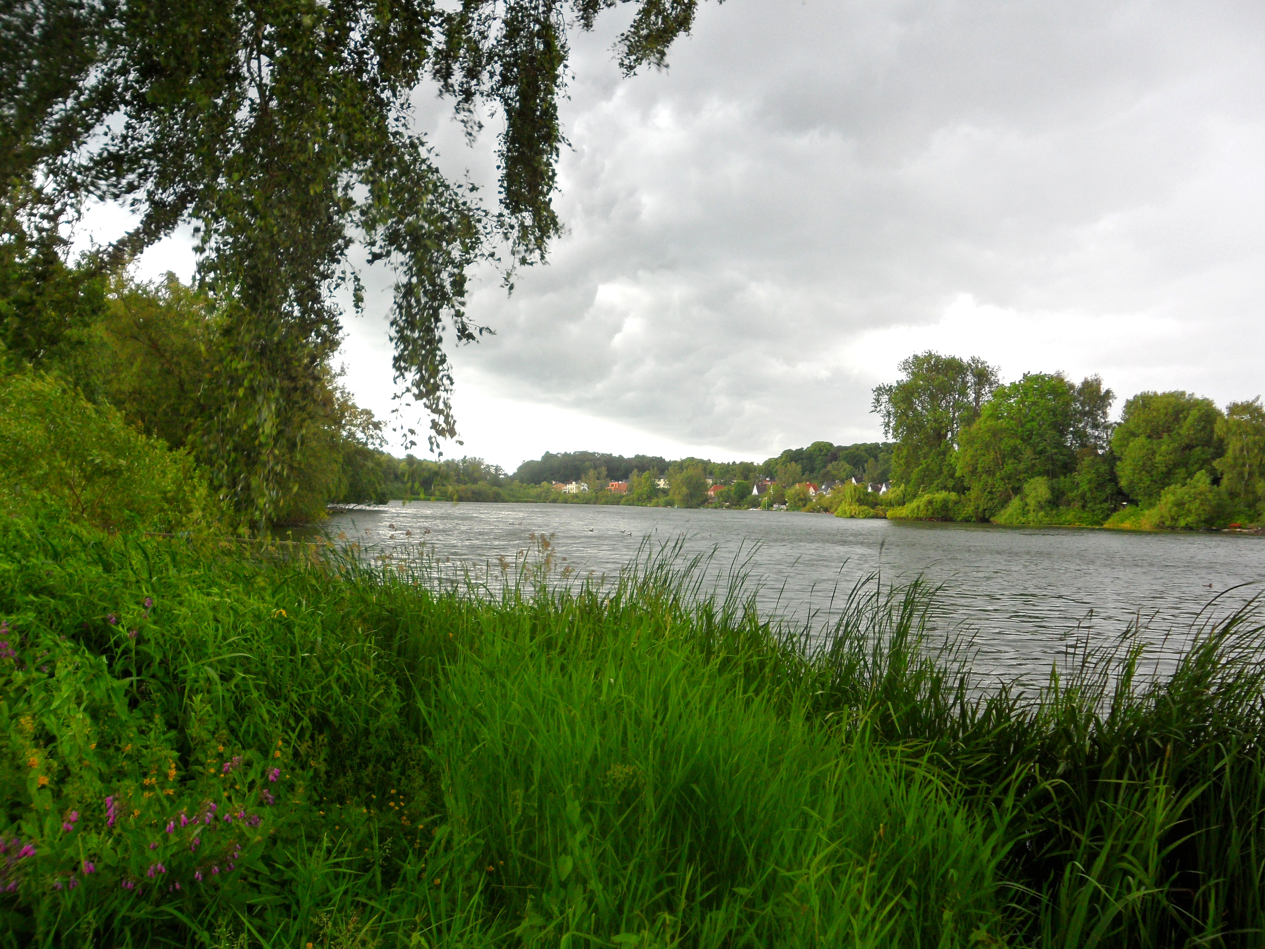 The Kirchsee close from north east